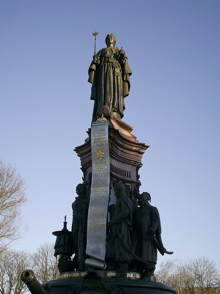 Modern reconstruction of monument to Ekaterina the Great in Krasnodar (former Yekaterinodar). Original monument was destroyed by communists in 1920.